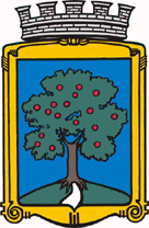 Coat of arms of Jablonec nad Nisou town, Czech Republic.